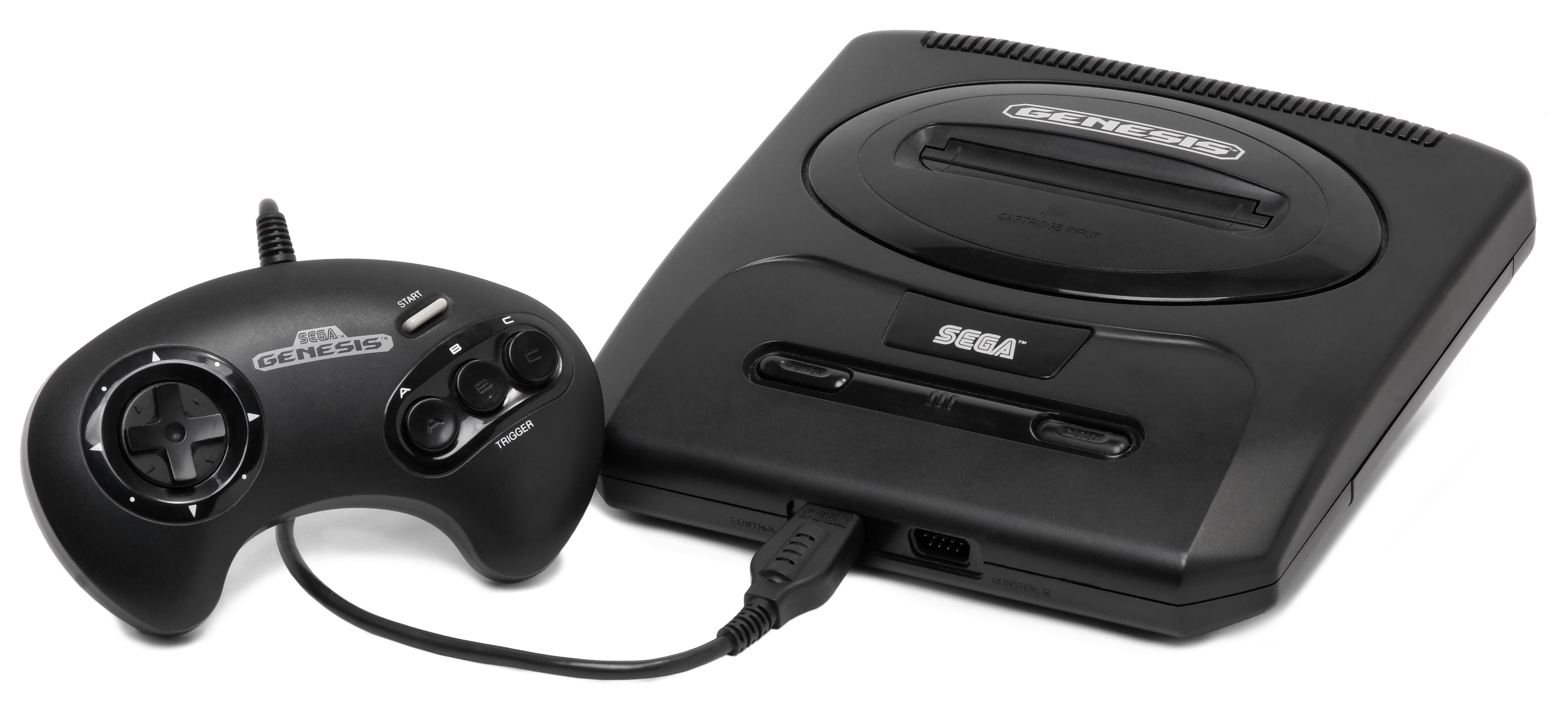 A model 2 Sega Genesis, shown with 3-button controller.